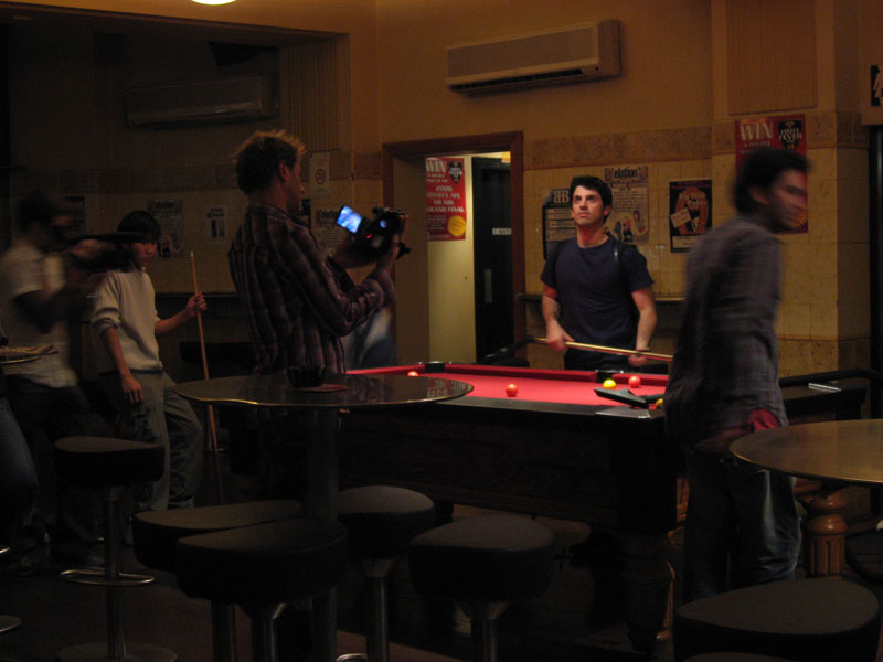 The Chaser members Chas Licciadello and Chris Taylor as well as crew enter a Sydney pub with vacuums testing if they could lift a pool ball. This was part of the segment Ad Road Test, testing Australian commercials in particular Godfrey's.